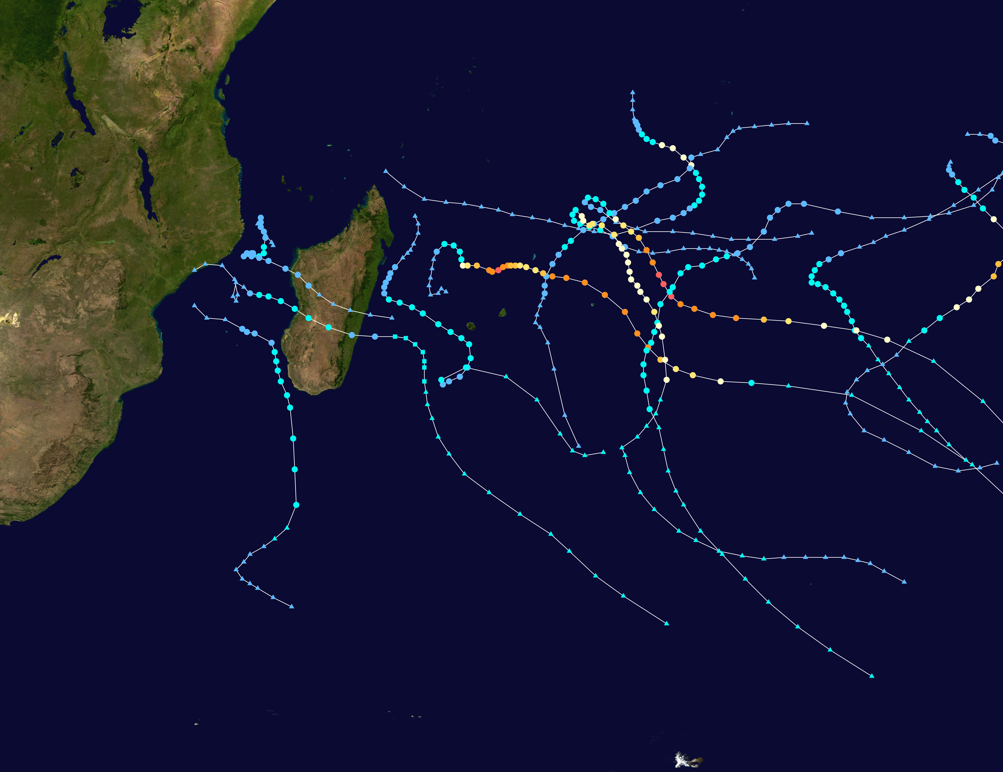 This map shows the tracks of all tropical cyclones in the 2014-15 South-West Indian Ocean cyclone season. The points show the location of each storm at 6-hour intervals. The colour represents the storm's maximum sustained wind speeds as classified in the Saffir-Simpson Hurricane Scale (see below), and the shape of the data points represent the type of the storm. Saffir–Simpson scale Tropical depression≤38 mph≤62 km/h Category 3111–129 mph178–208 km/h Tropical storm39–73 mph63–118 km/h Category 4130–156 mph209–251 km/h Category 174–95 mph119–153 km/h Category 5≥157 mph≥252 km/h Category 296–110 mph154–177 km/h Unknown Storm type Tropical cyclone Subtropical cyclone Extratropical cyclone / Remnant low / Tropical disturbance / Monsoon depression